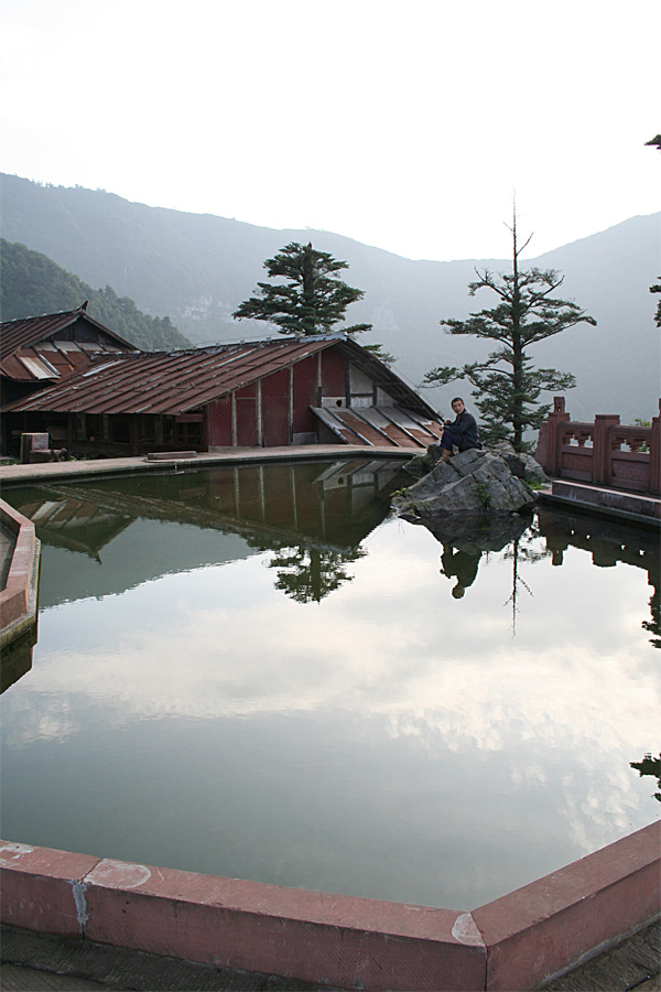 Elephant Bathing Pool on Emei Shan